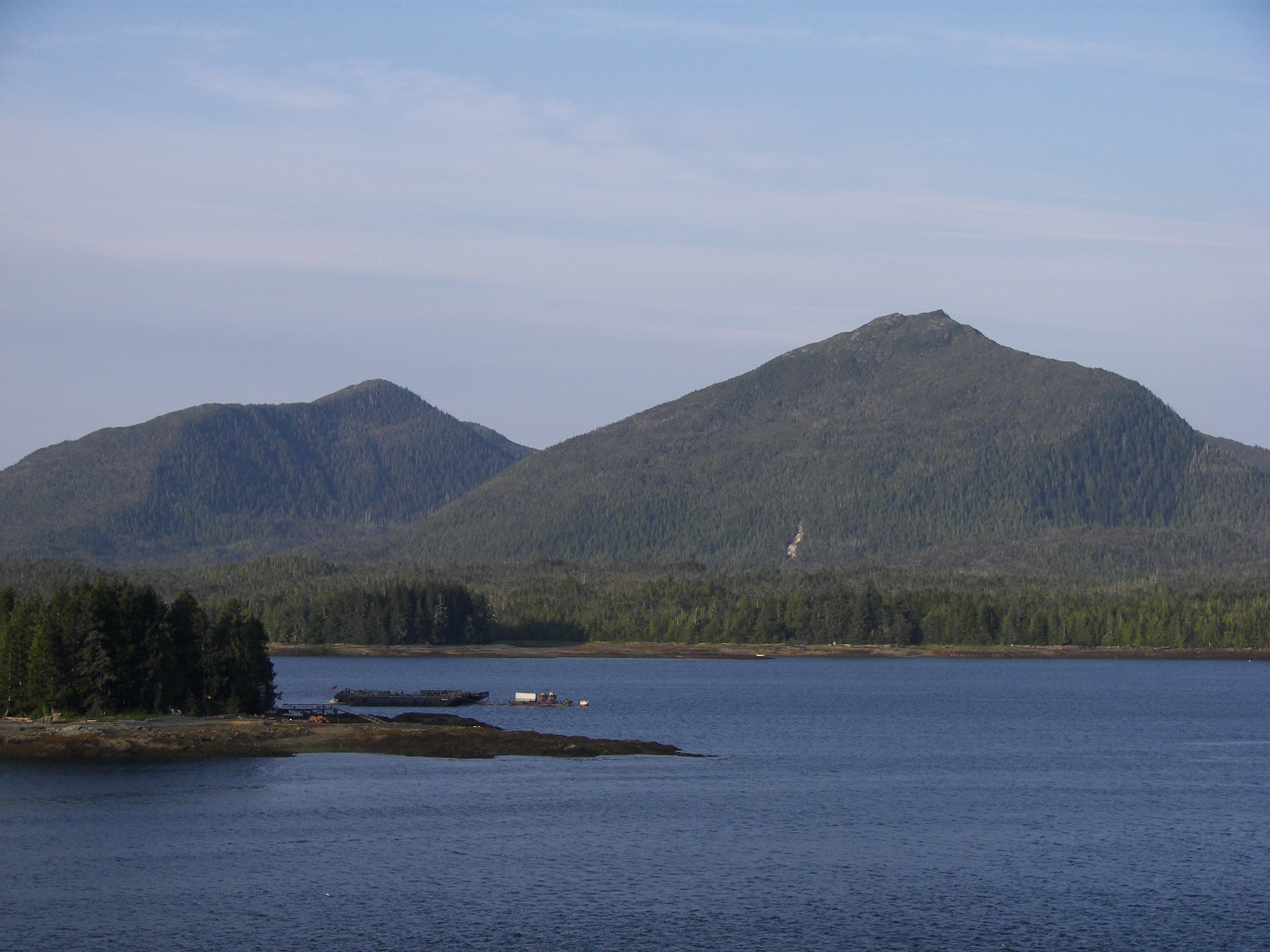 Gravina Island across the Tongass Narrows from Ketchikan, Alaska. Pennock Island is to the left.